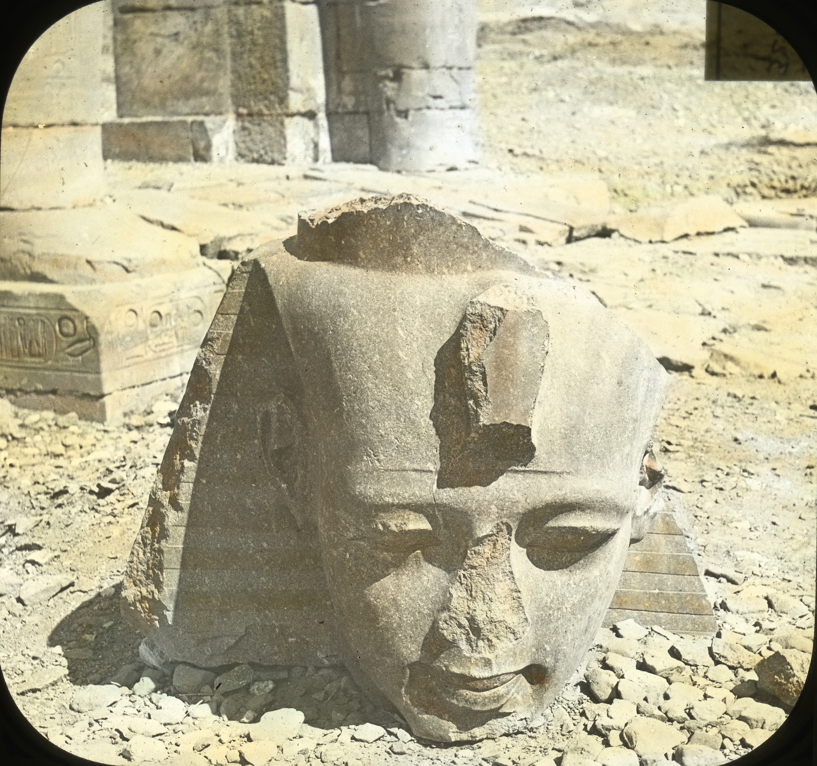 Lantern Slide Collection: Views, Objects: Egypt. Thebes [selected images]. View 04: Egypt - The Ramesseum, Head of Colossus of Ramses II, Thebes. 19 Dyn., n.d., T. H. McAllister, Manufacturing Optician. 49 Nassau Street, New York. Brooklyn Museum Archives (S10|08 Thebes, image 9869).